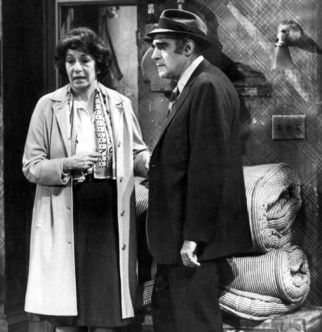 Publicity photo of Abe Vigoda and Florence Stanley as Phil and Bernice Fish from the television program Fish.